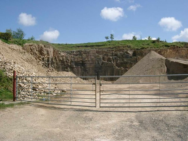 Quarry near Bennecarrigan